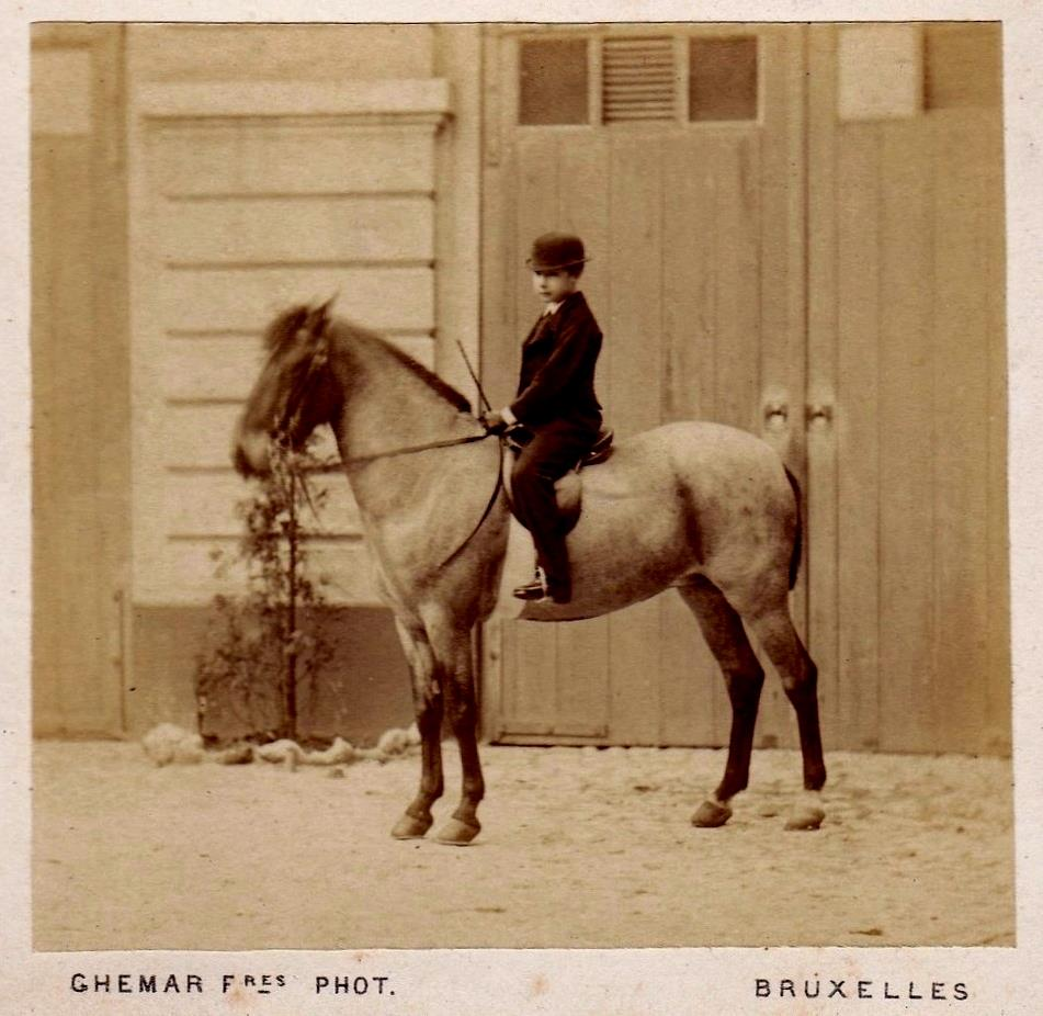 Leopold, Duke of Brabant (1859-1869)